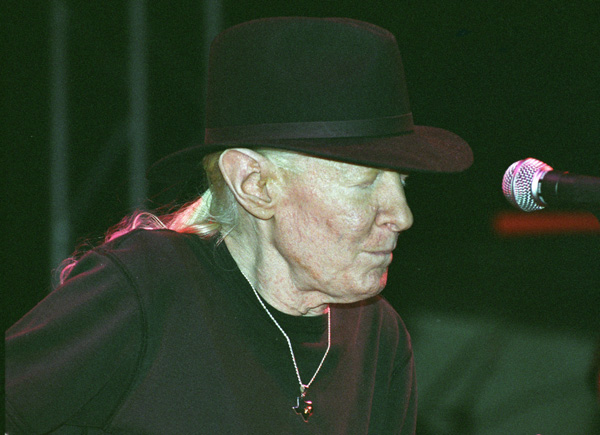 Johnny Winter in concert at the Granada Theater, Dallas, Texas